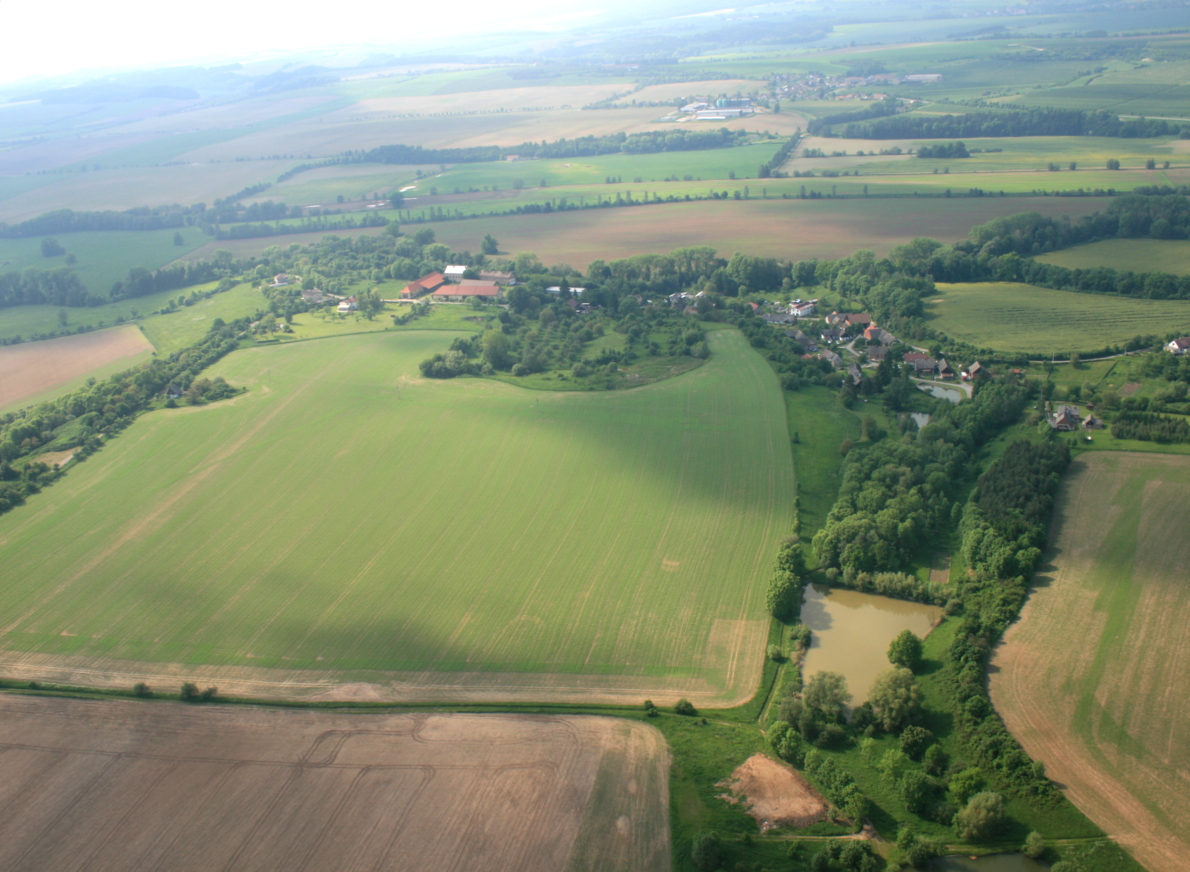 Village Doubravice u České Skalice, part of Rychnovek from air, eastern Bohemia, Czech Republic